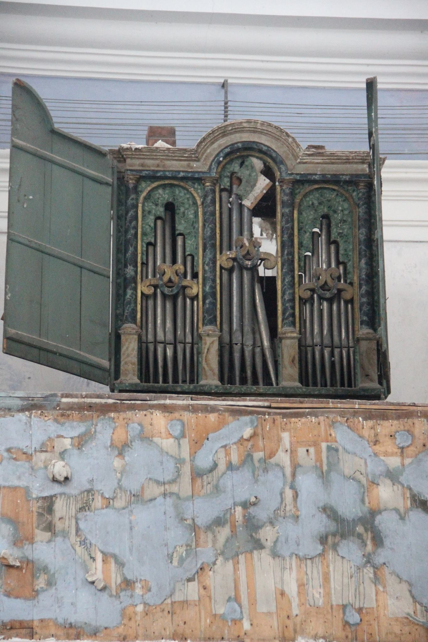 Interior of the church of San Marco dei Sabariani in Santa Teresa, Benevento, Italy, opened exceptionally on 22nd March 2015 during the Fondo Ambiente Italiano's "Giornate di Primavera"